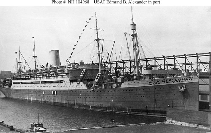 USAT Edmund B. Alexander (U.S. Army Transport) In port, circa 1945-1946. Completed in 1905 as the German passenger liner SS Amerika, this ship served as USS America (1905) during 1917-1919 and as USAT America in 1919-1920. She was extensively modernized, as seen here, in 1942-1943.